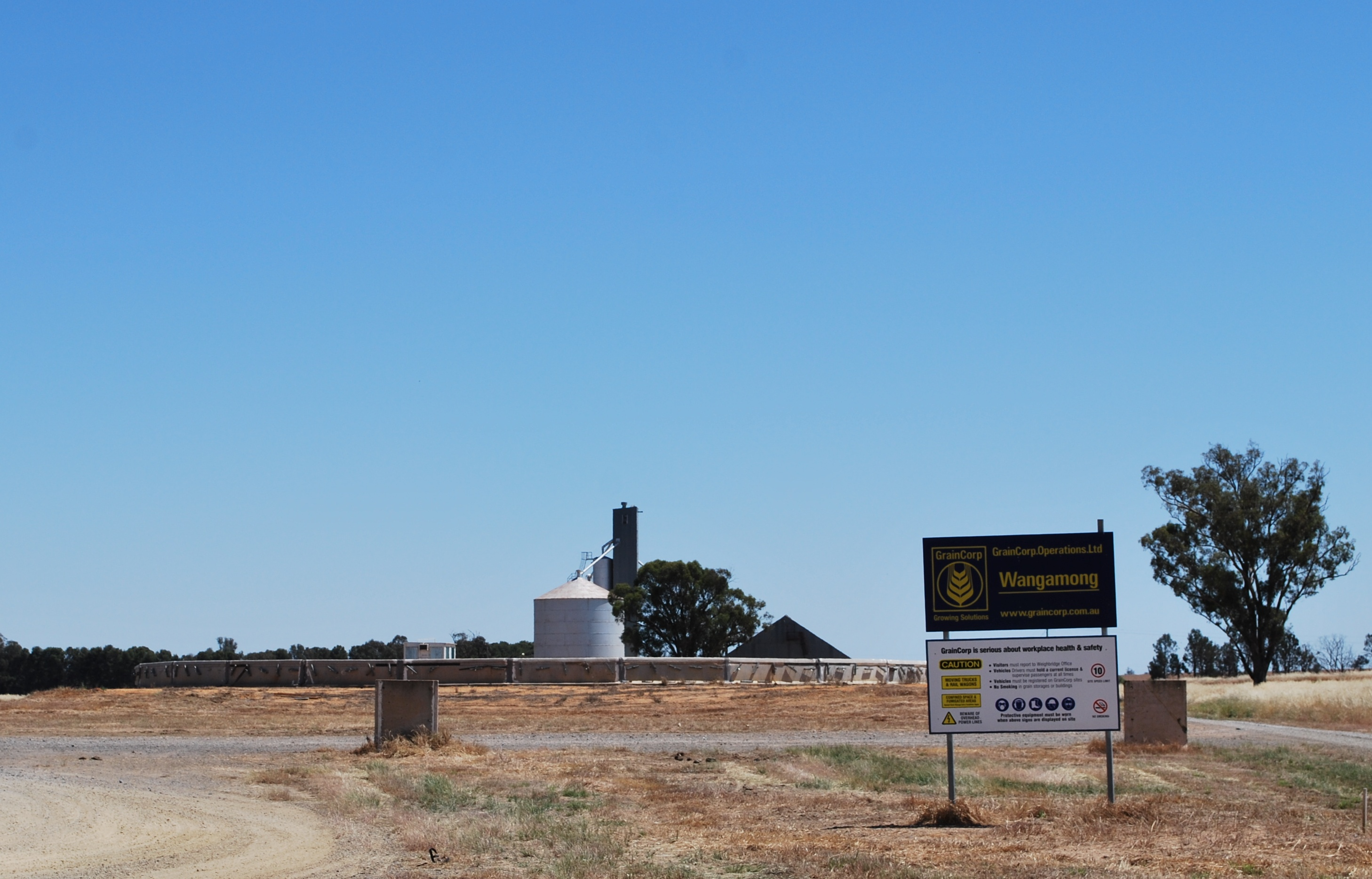 Silos on the rail line at Wangamong, New South Wales